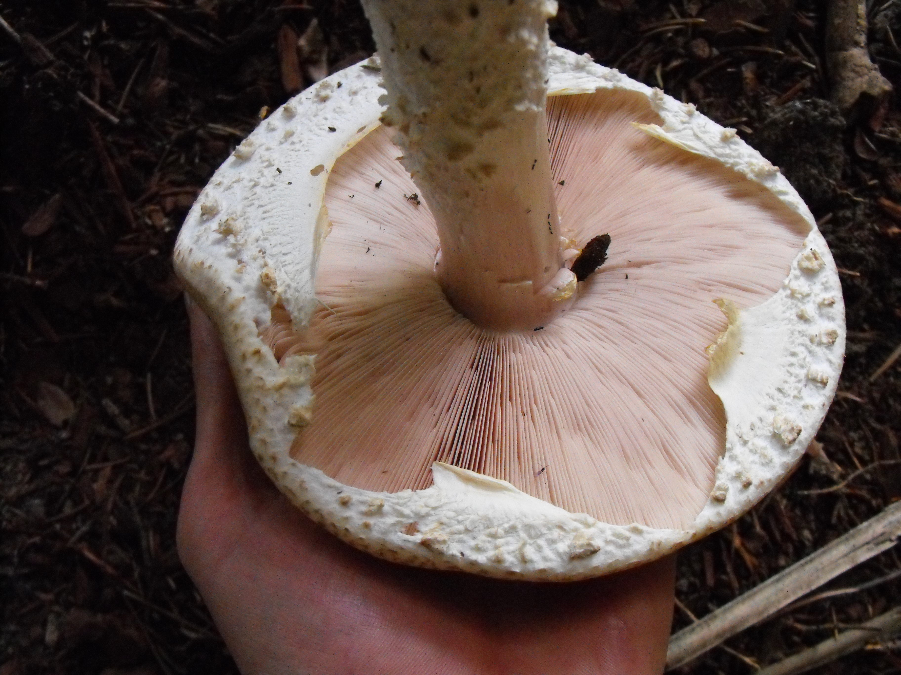 Agaricus augustus Fr. For more information about this, see the observation page at Mushroom Observer.